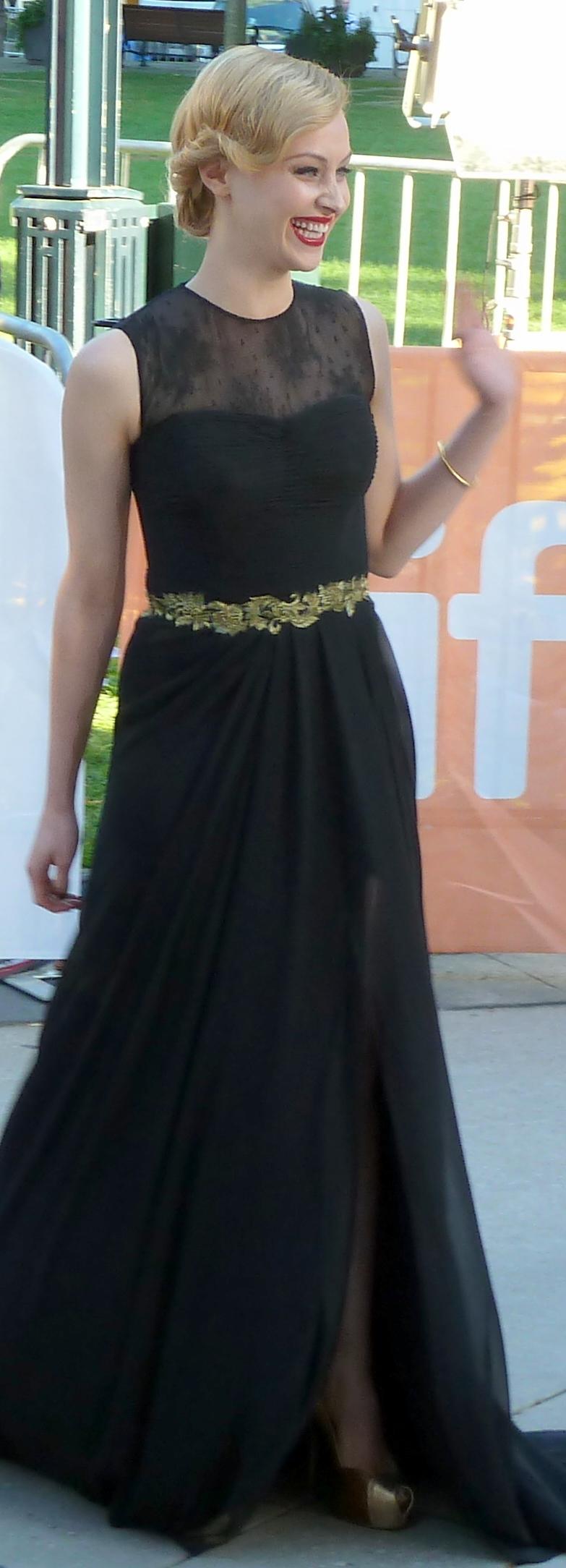 Sarah Gadon at the premiere of A Dangerous Method, Toronto Film Festival 2011